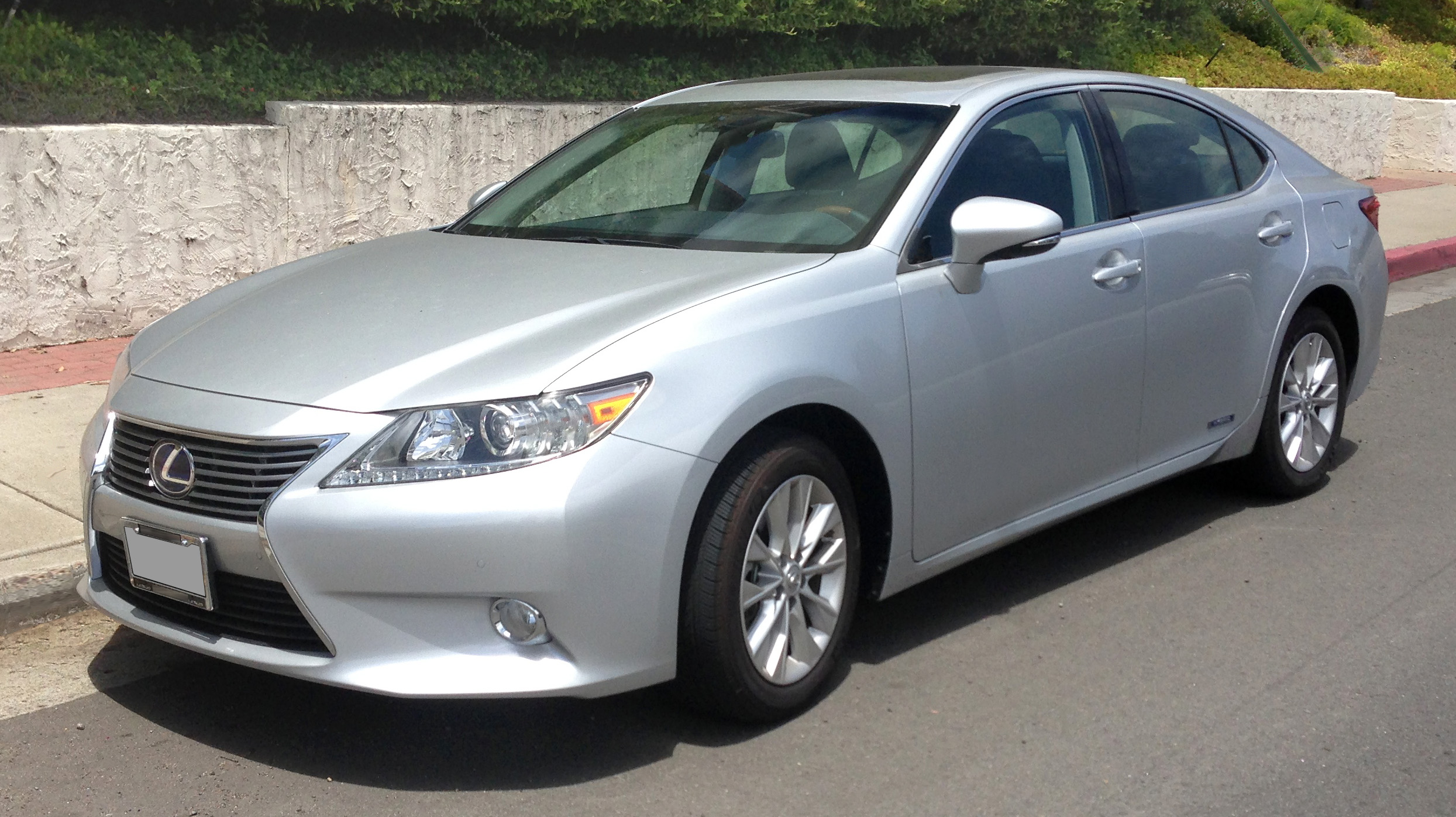 ES 300h